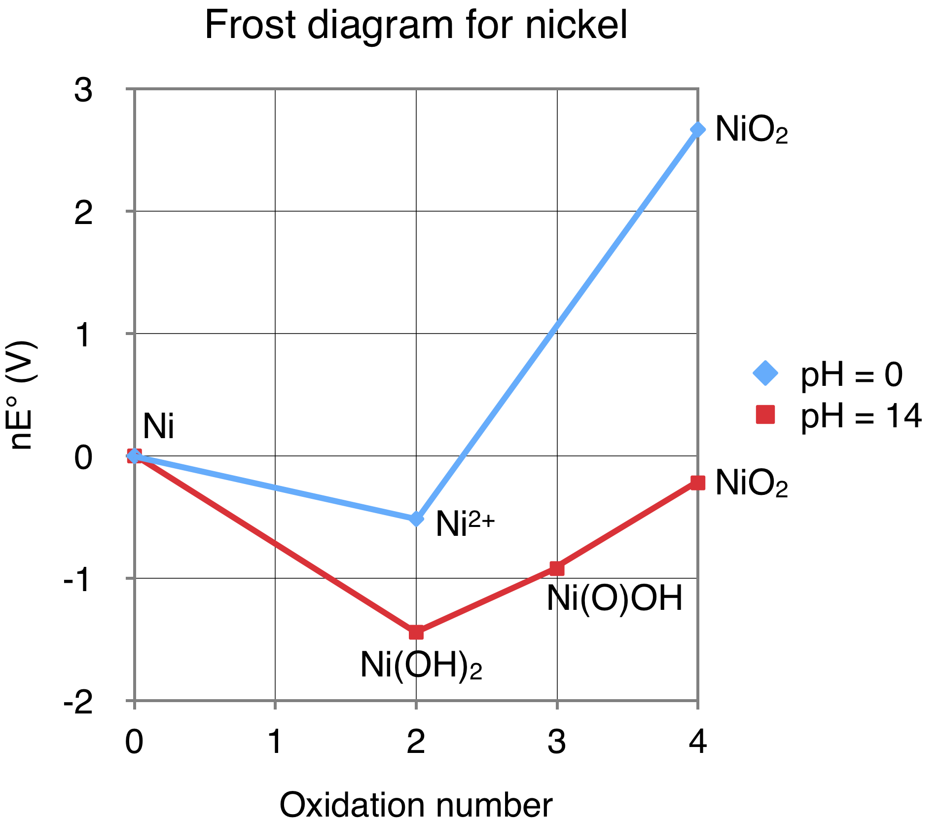 Frost diagram for nickel. Data from Shriver & Atkins' Inorganic Chemistry, 5th Edition, 2010